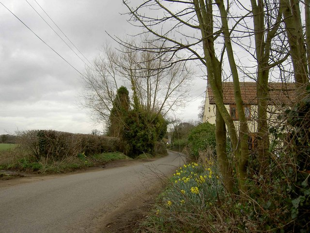 Daffodils on Dyers Lane